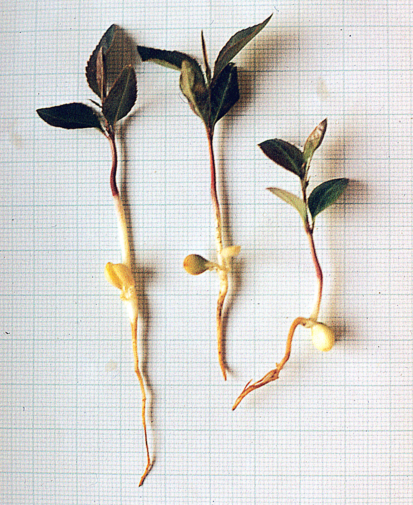 Prunus serotina seedlings